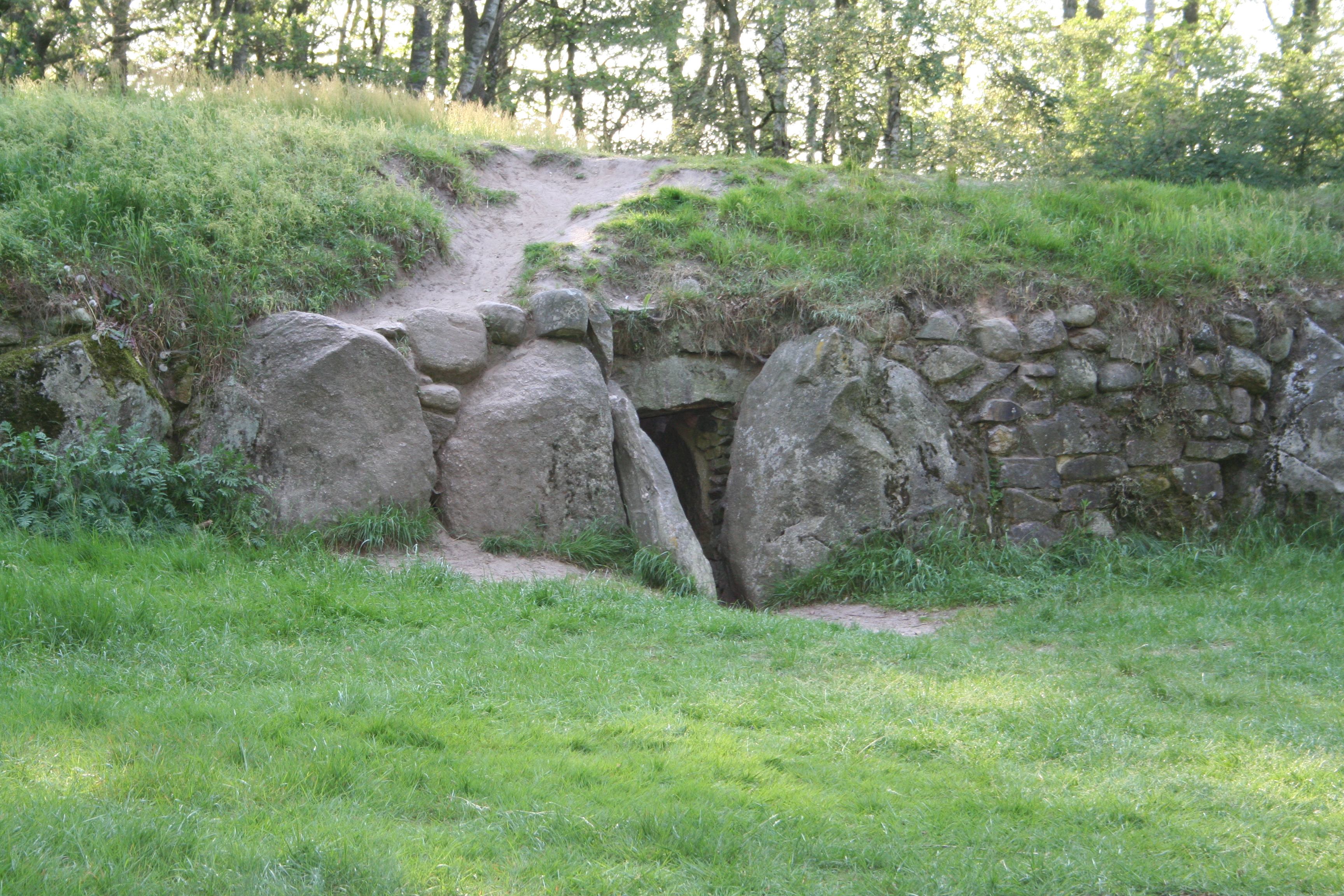 Megalithic tomb Kleinenkneten 1